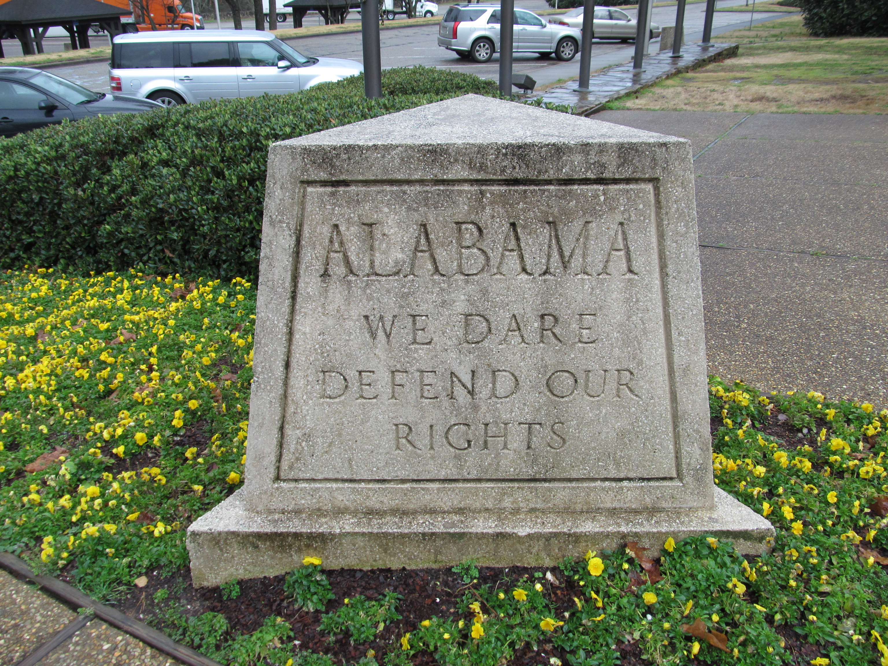 State Motto Marker at Alabama Welcome Center, Cleburne County Alabama